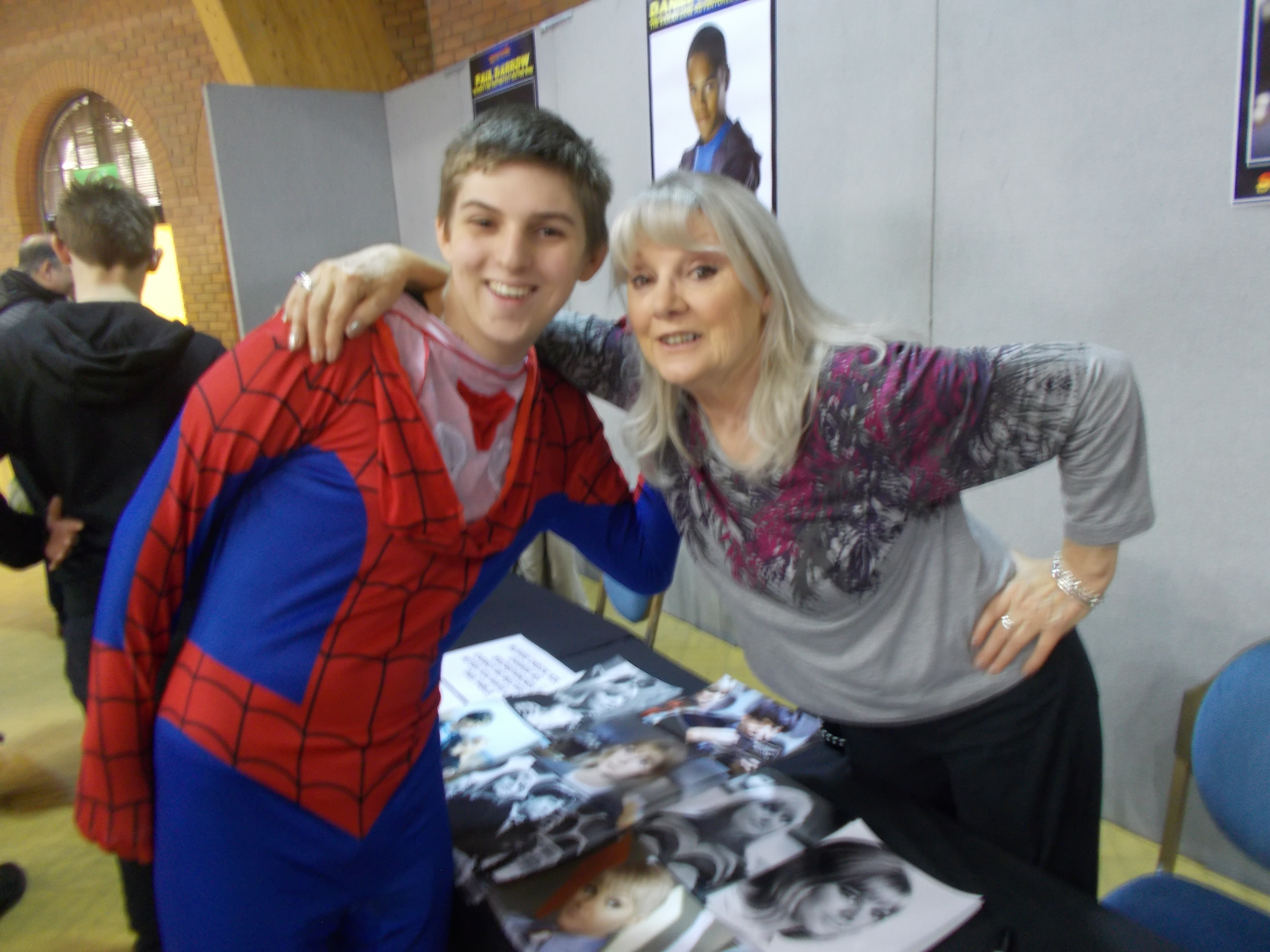 Anneke Wills with a young fan at Bournemouth Comic-Con in 2016.